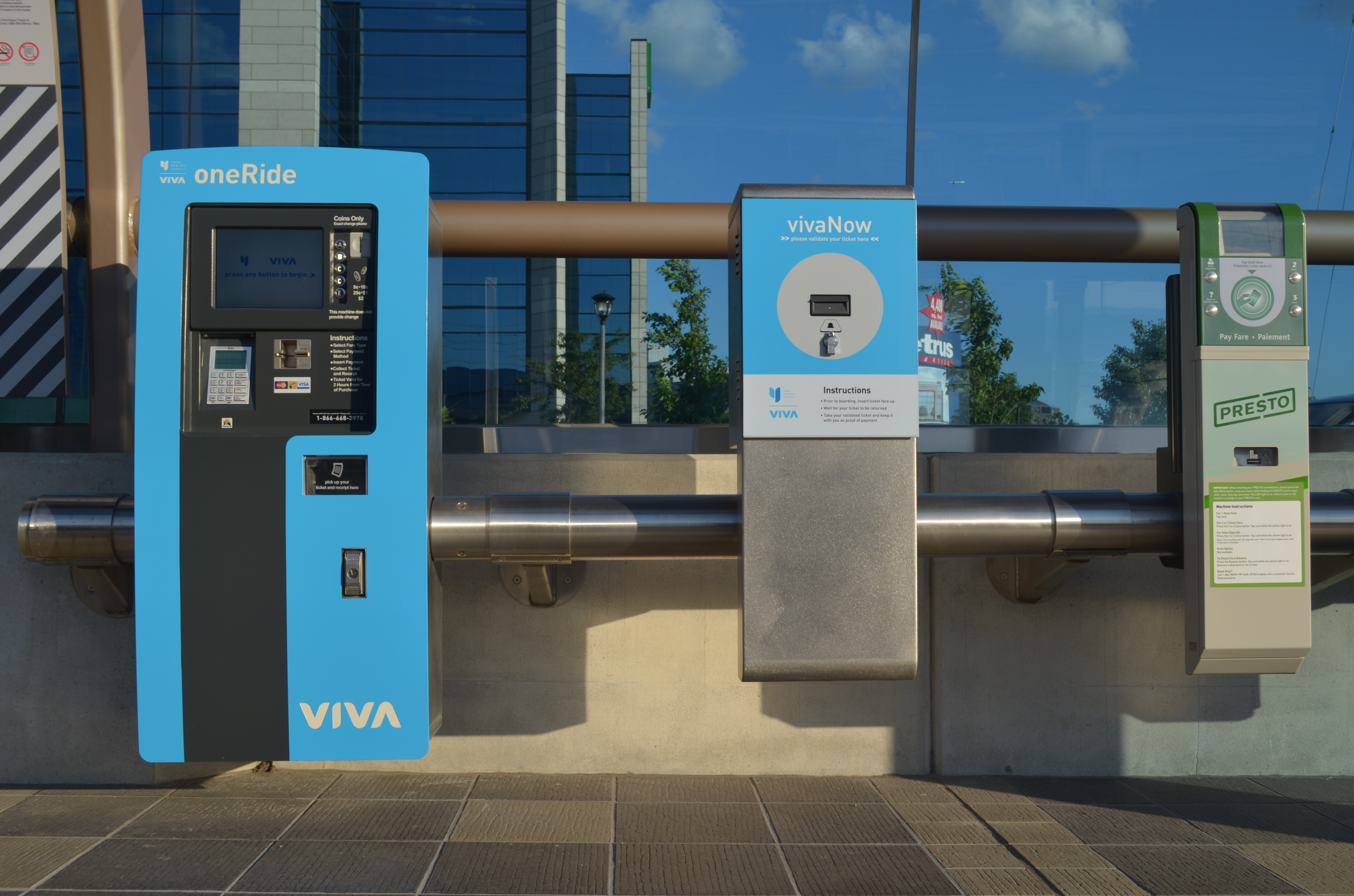 Viva OneRide, validation & presto card machines.